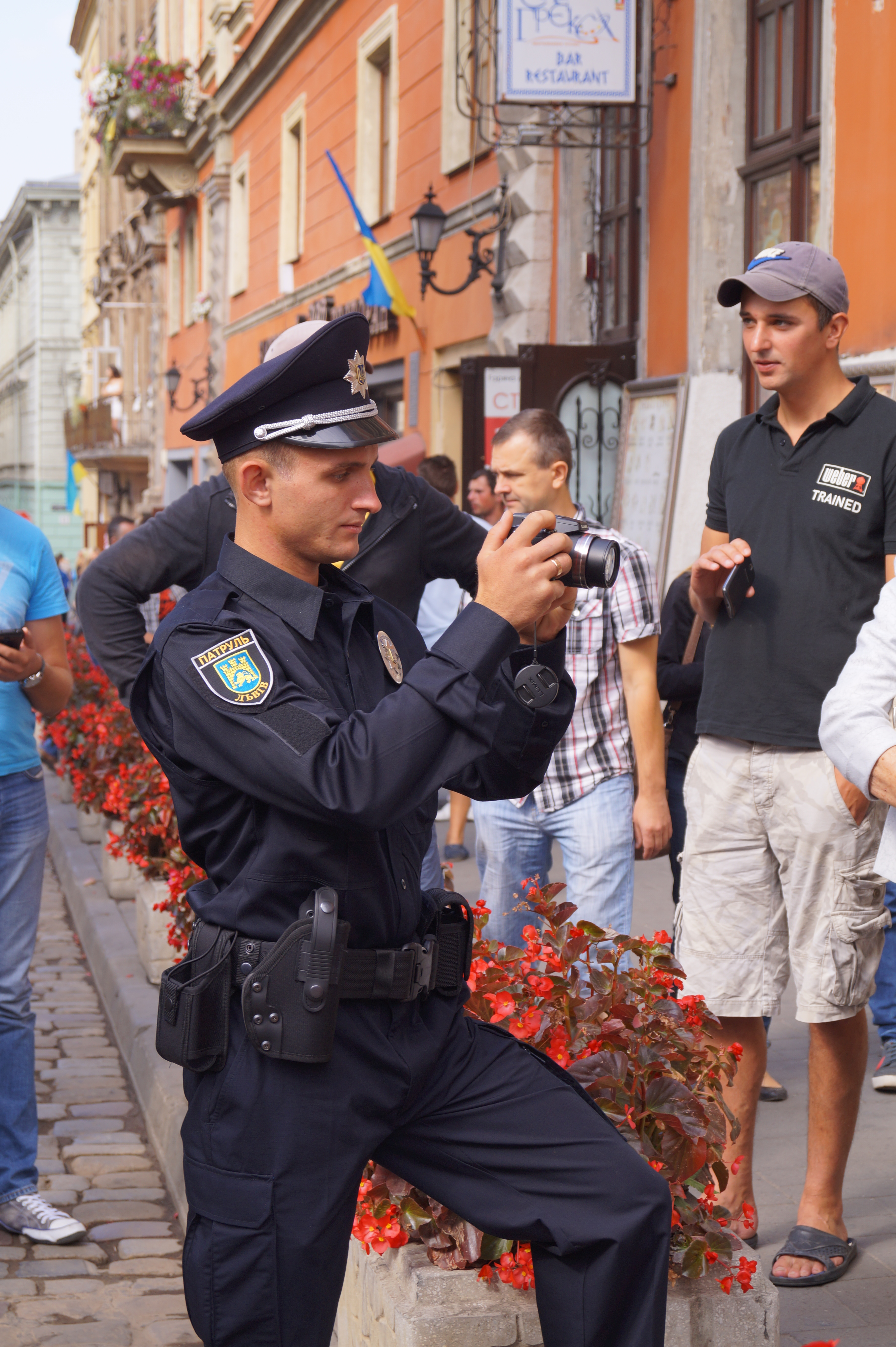 Photos from the launch of new Lviv Police